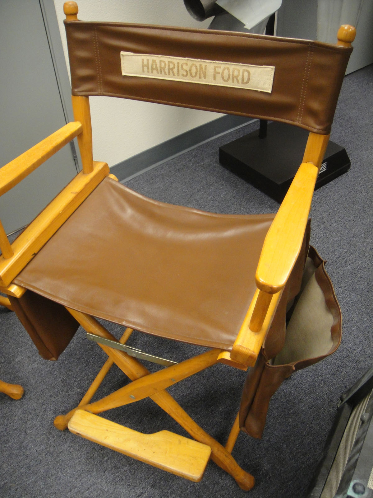 photo 2011 taken by Doug Kline If you're interested in higher resolution versions of my images, contact me via my profile page.